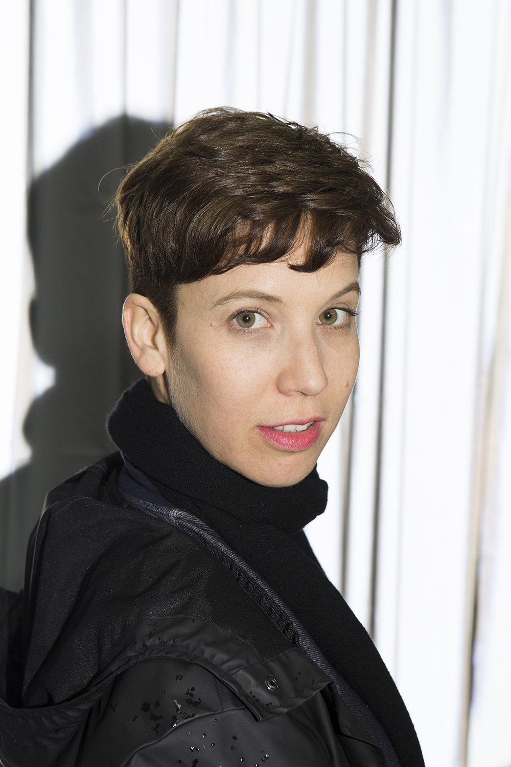 Alona Rodeh, Berlin 2015